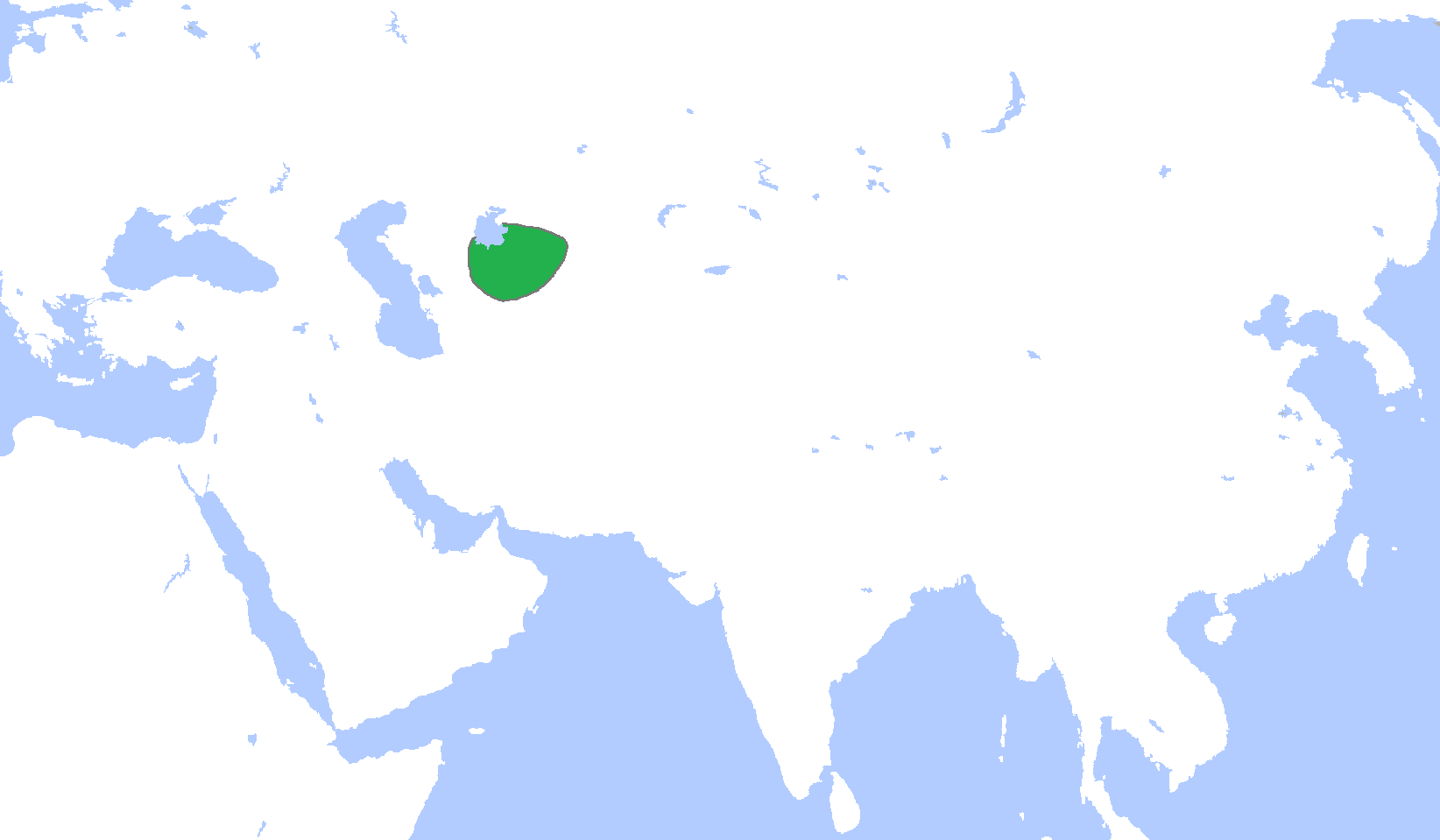 Locator map of the Khanate of Khiva, c. 1600. (Partially based on Atlas of World History (2007) - The World 1500-1600, map)